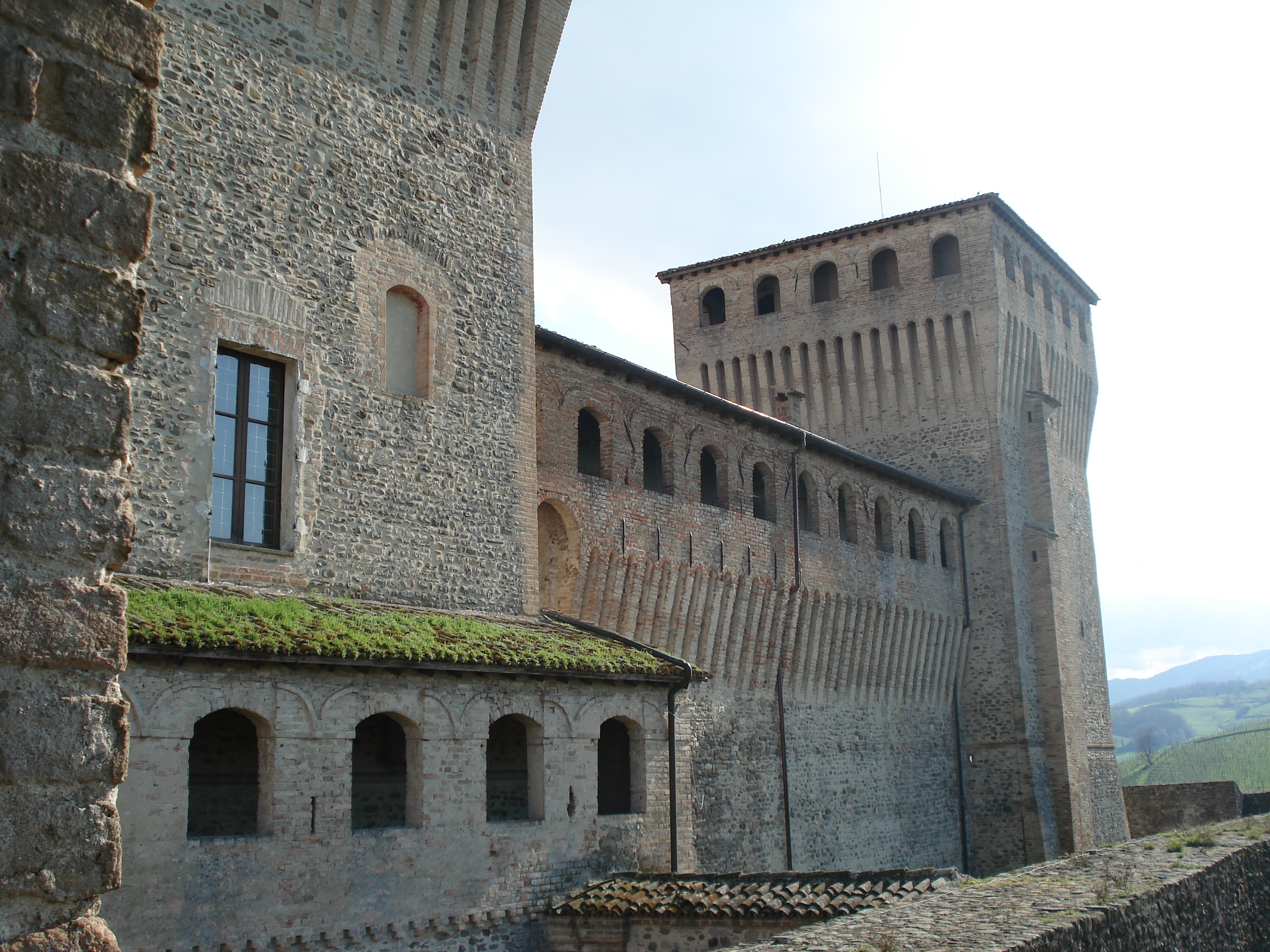 Torrechiara Castle This is a photo of a monument which is part of cultural heritage of Italy.